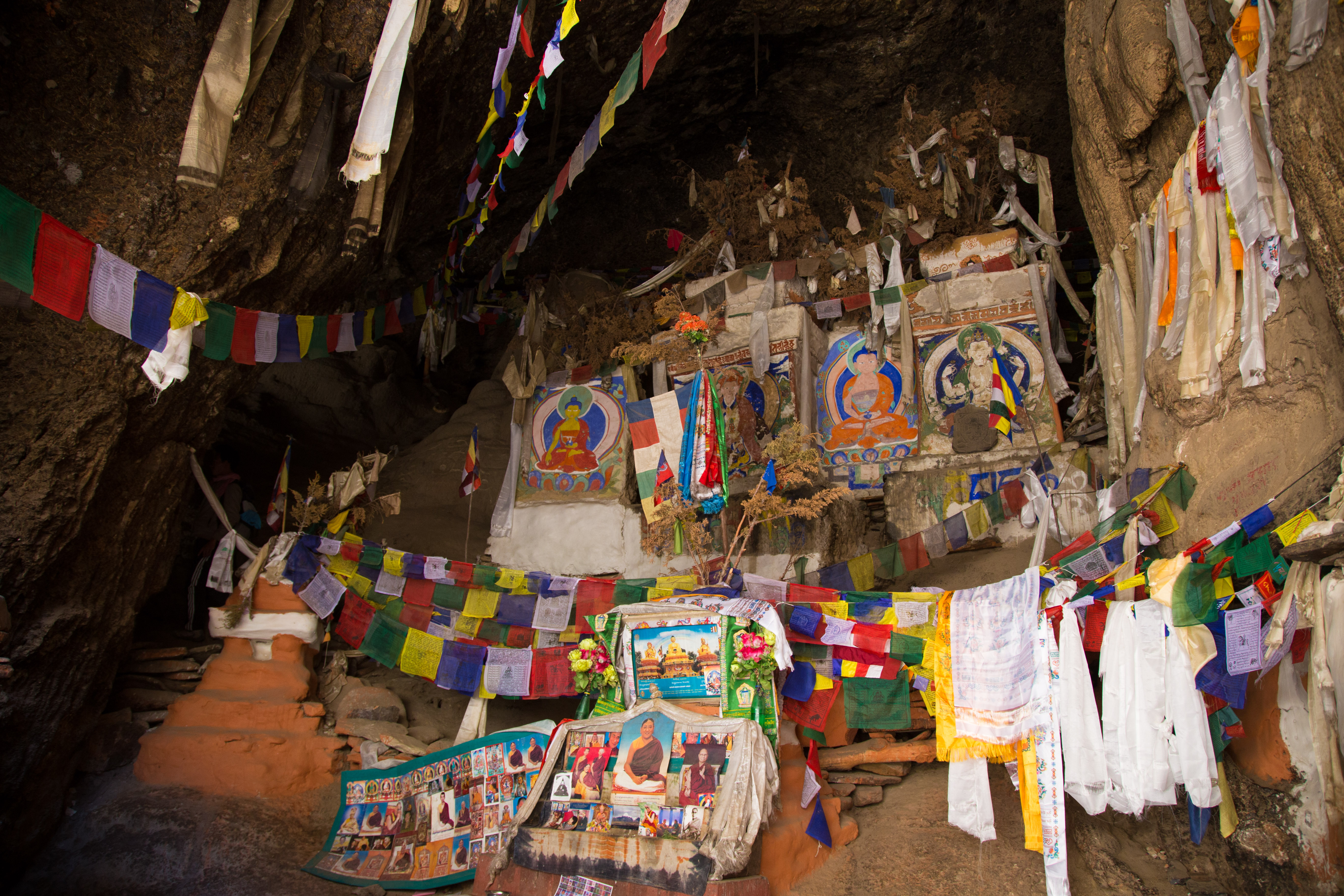 Inside Ranchung Cave